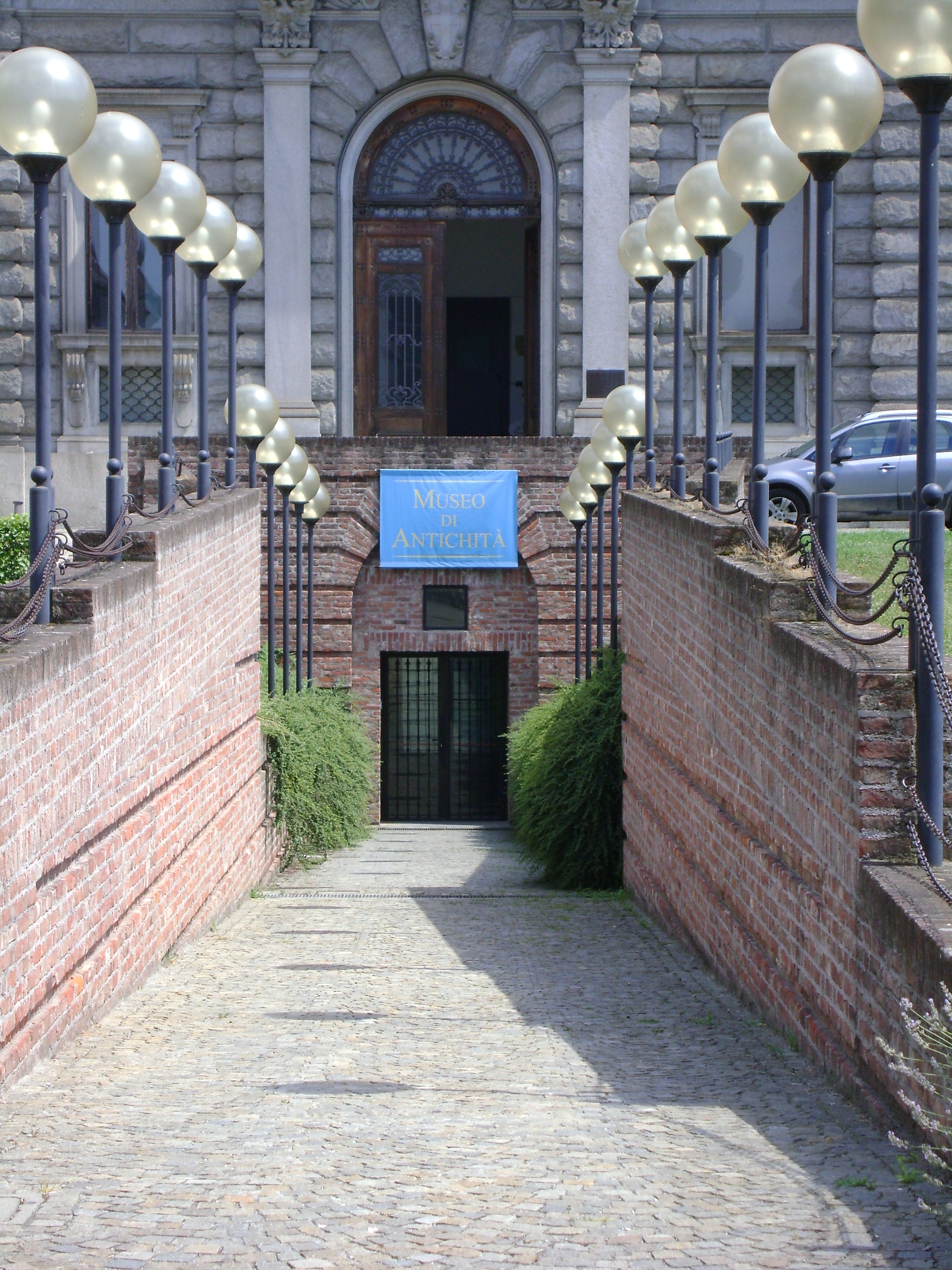 Entrance of the antiquity museum, Turin (Italy)